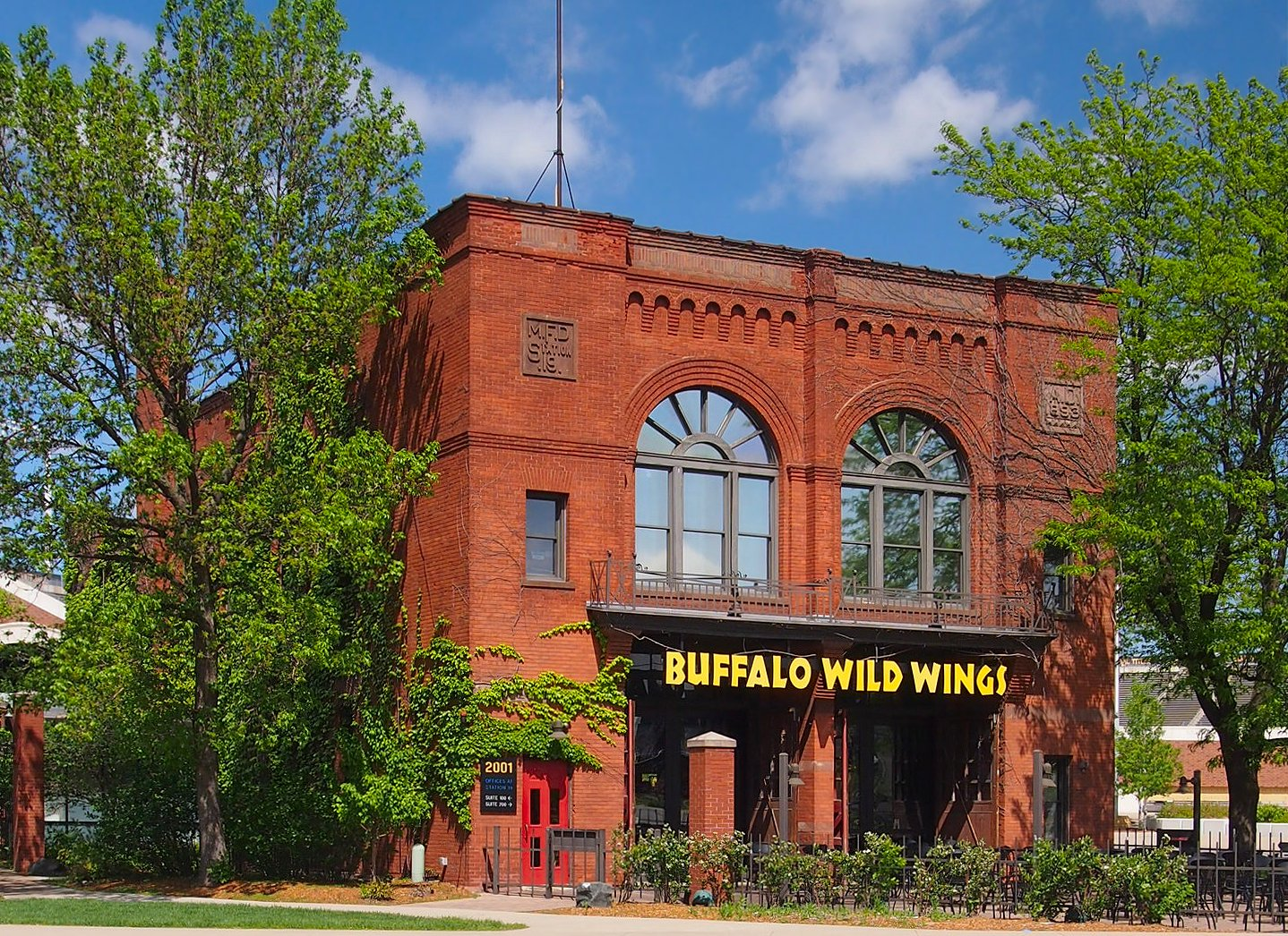 Fire Station No. 19 (now a Buffalo Wild Wings restaurant), 2001 University Ave SE, Minneapolis, Minnesota, USA. Viewed from the southwest.